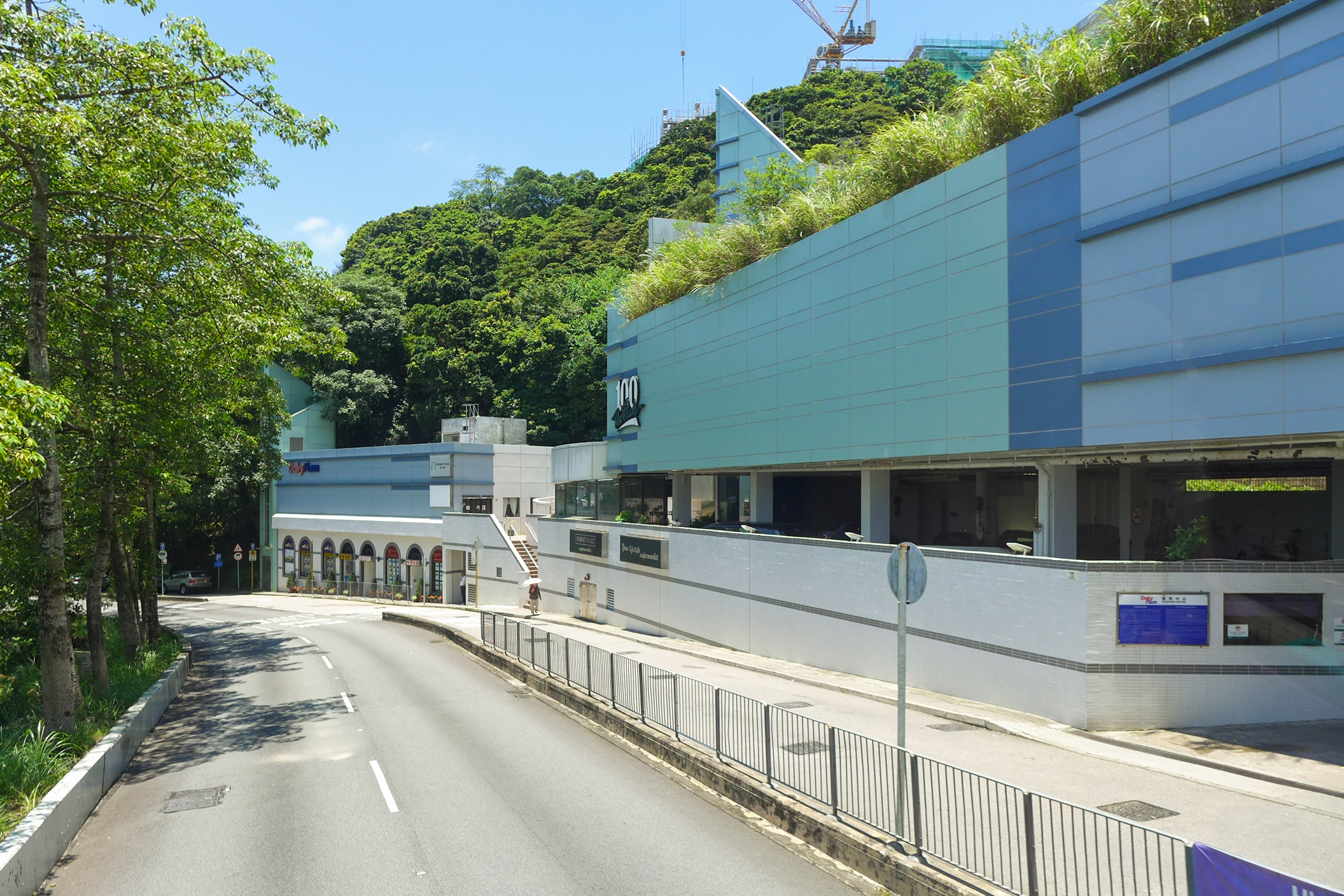 Daily Farm The Peak Shopping Centre